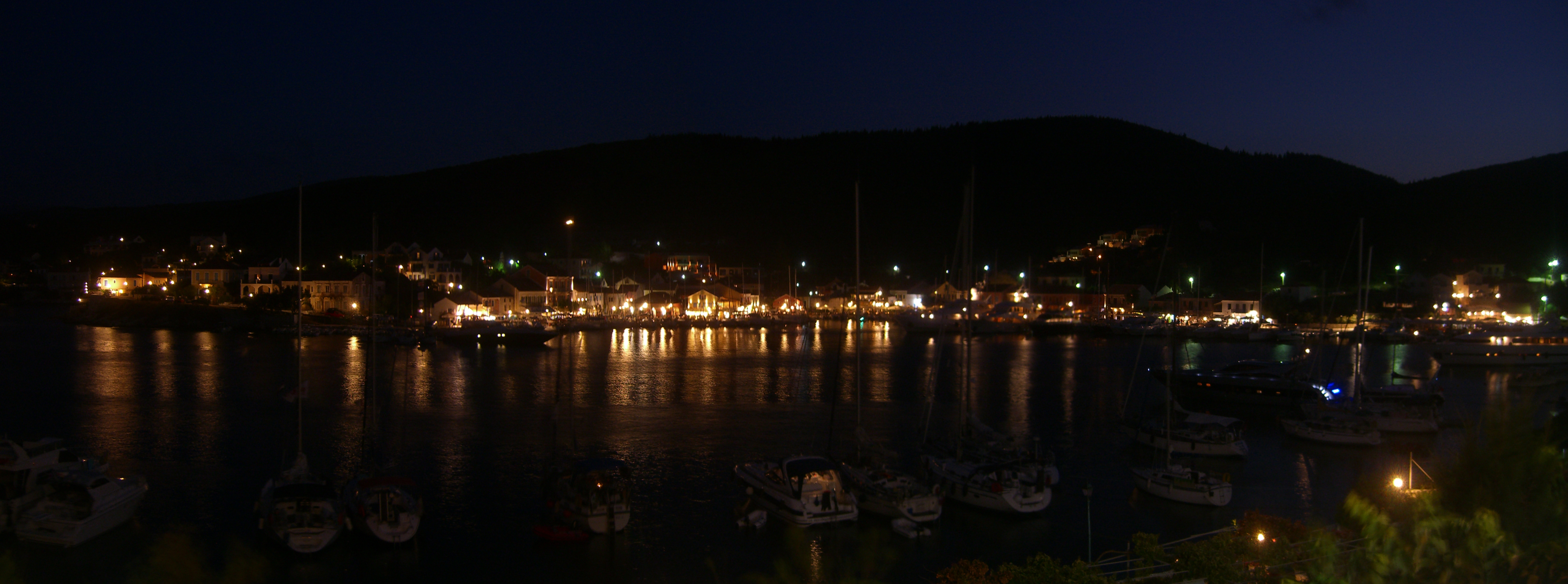 A panorama of the harbour of Fiskardo at night